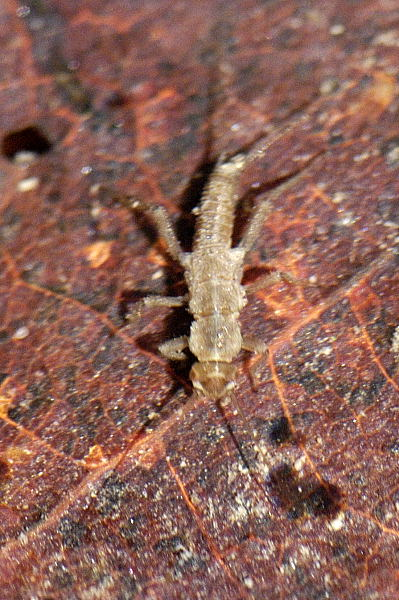 Picture taken in Commanster, Belgian High Ardennes . Species: Leuctra fusca nymph